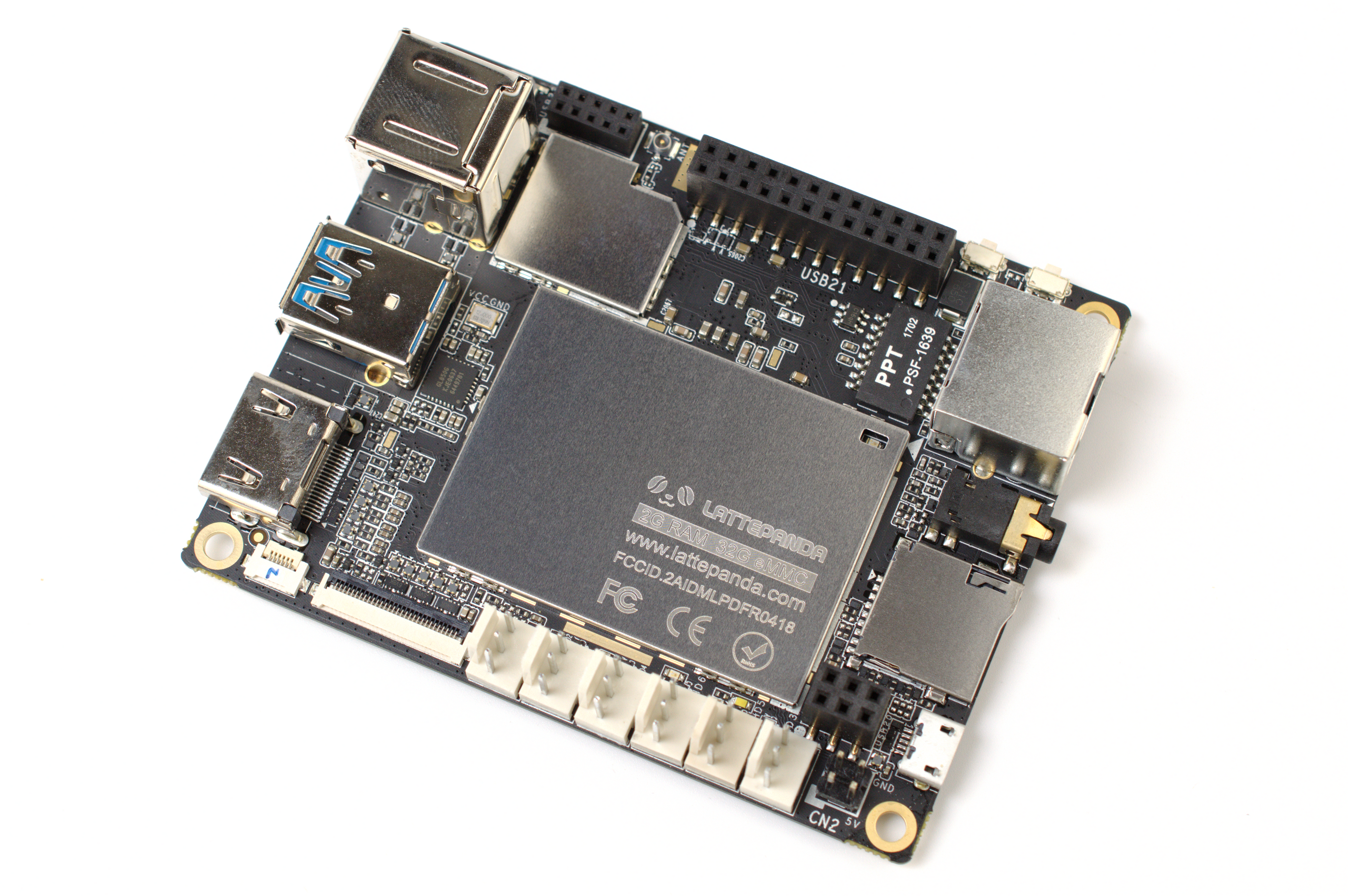 The LattePanda single-board computer, kindly proivided as a press sample.